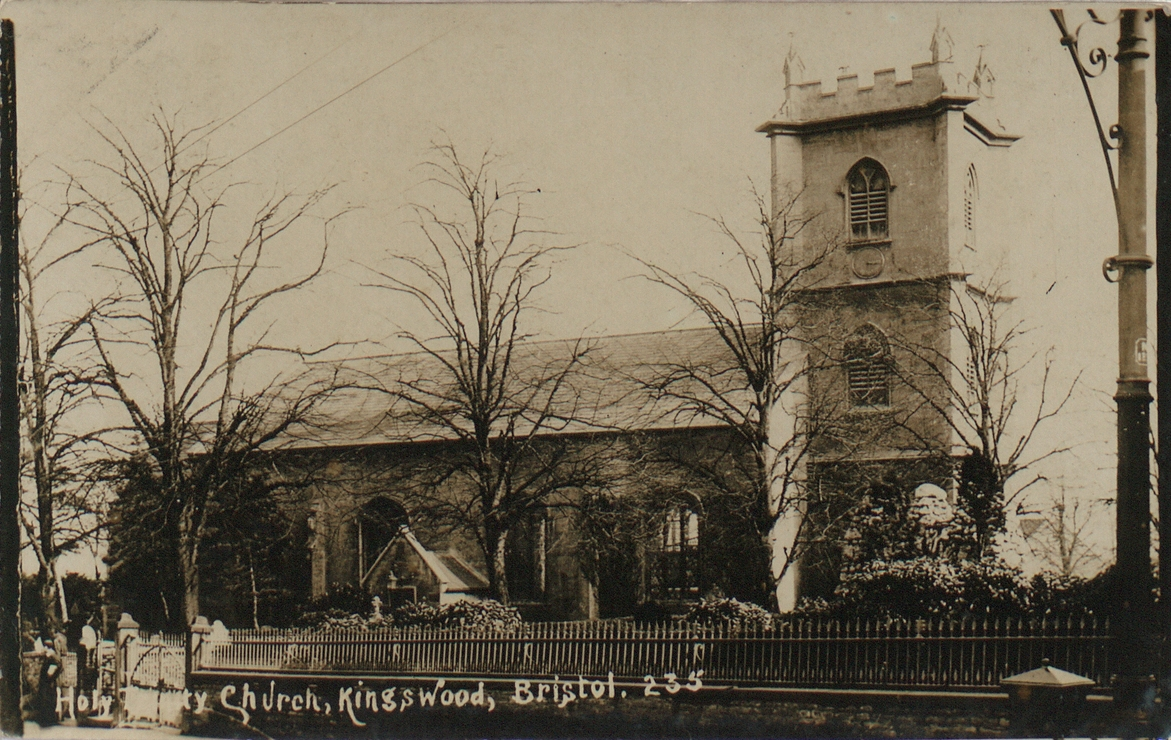 Holy Trinity parish church, Kingswood, South Gloucestershire, seen from the northwest. Monochrome photo from a postcard published in 1919, showing trees in the churchyard and the brick walls and iron railings around it. Bristol Record Office reference number: 43207/29/17/19